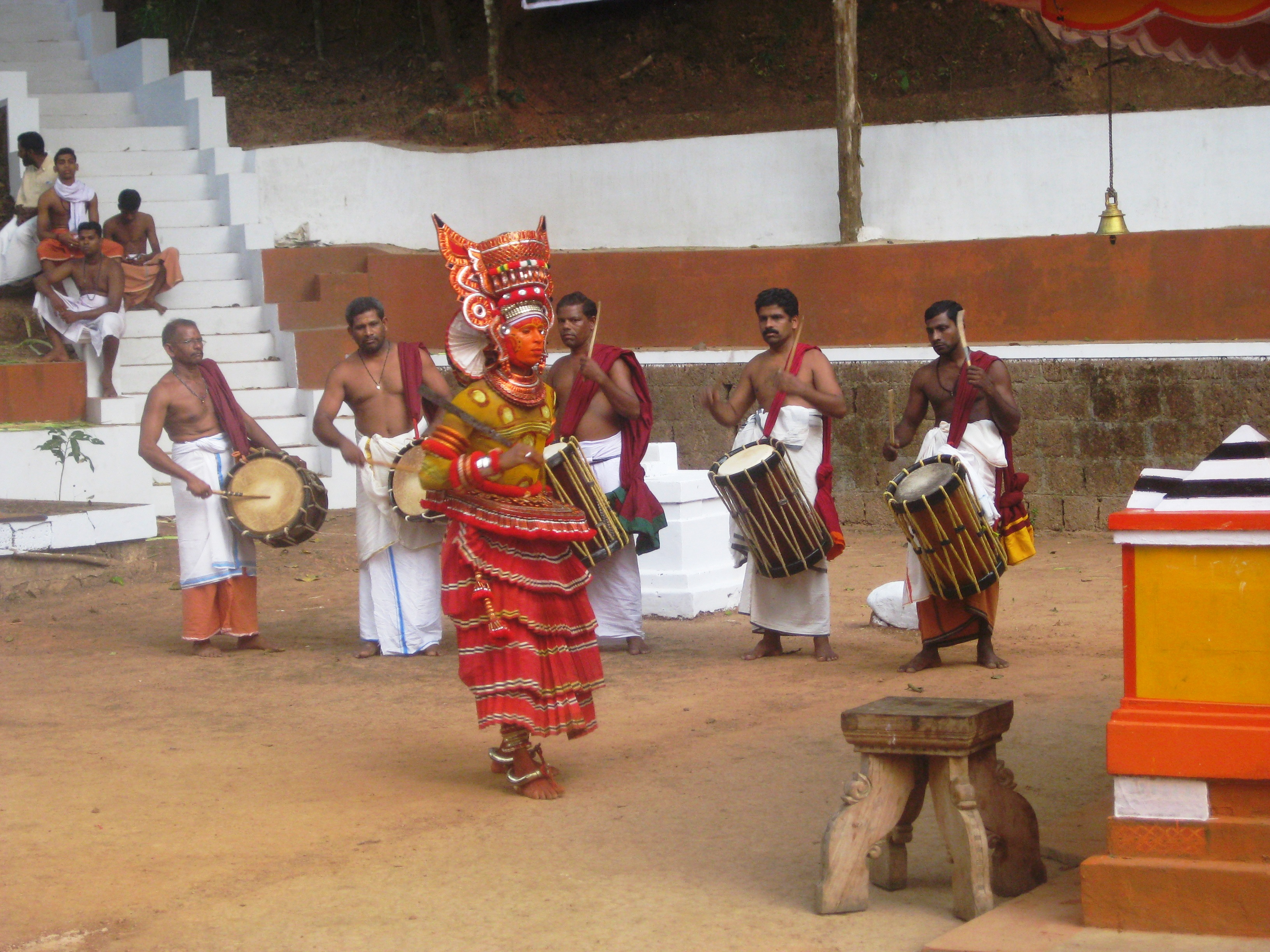 Vellattam theyyam